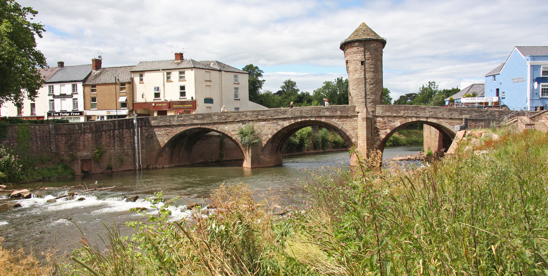 Monnow Bridge, Monmouth, Wales